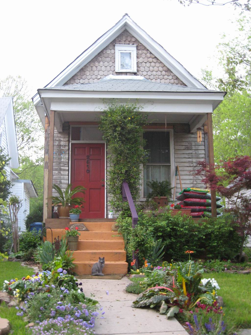 "Shotgun" style house on 6th Street in Little Rock, Arkansas